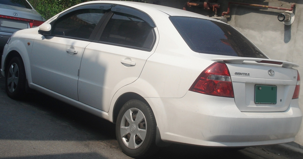 Daewoo Gentra